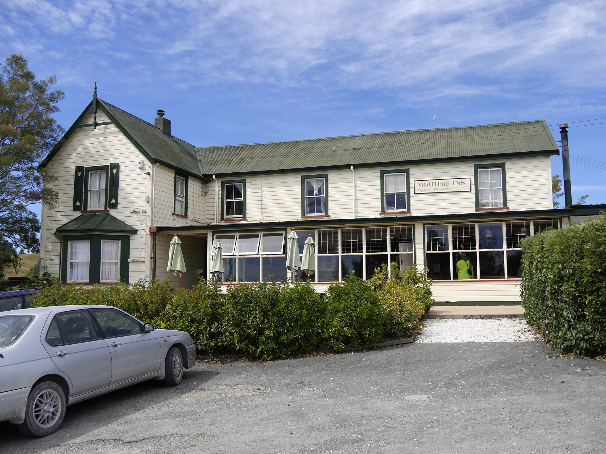 Moutere Inn, Upper Moutere (former Sarau), Tasman District, South Island, New Zealand (est. 1850)